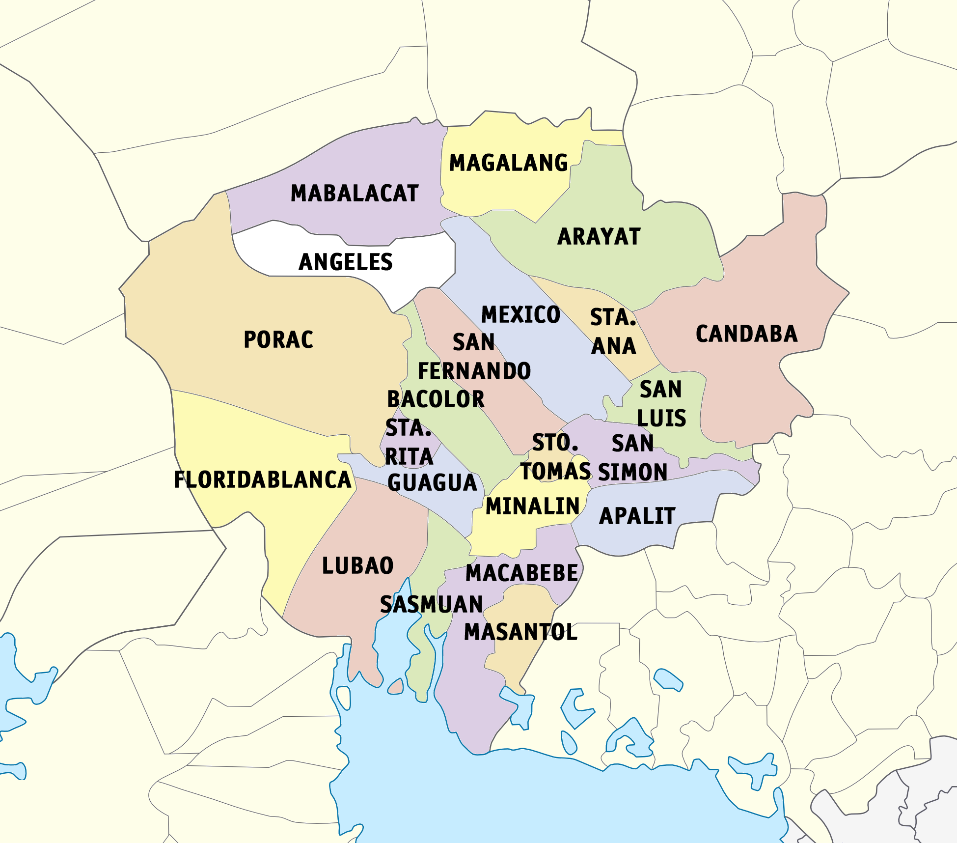 Political map of Pampanga, Philippines